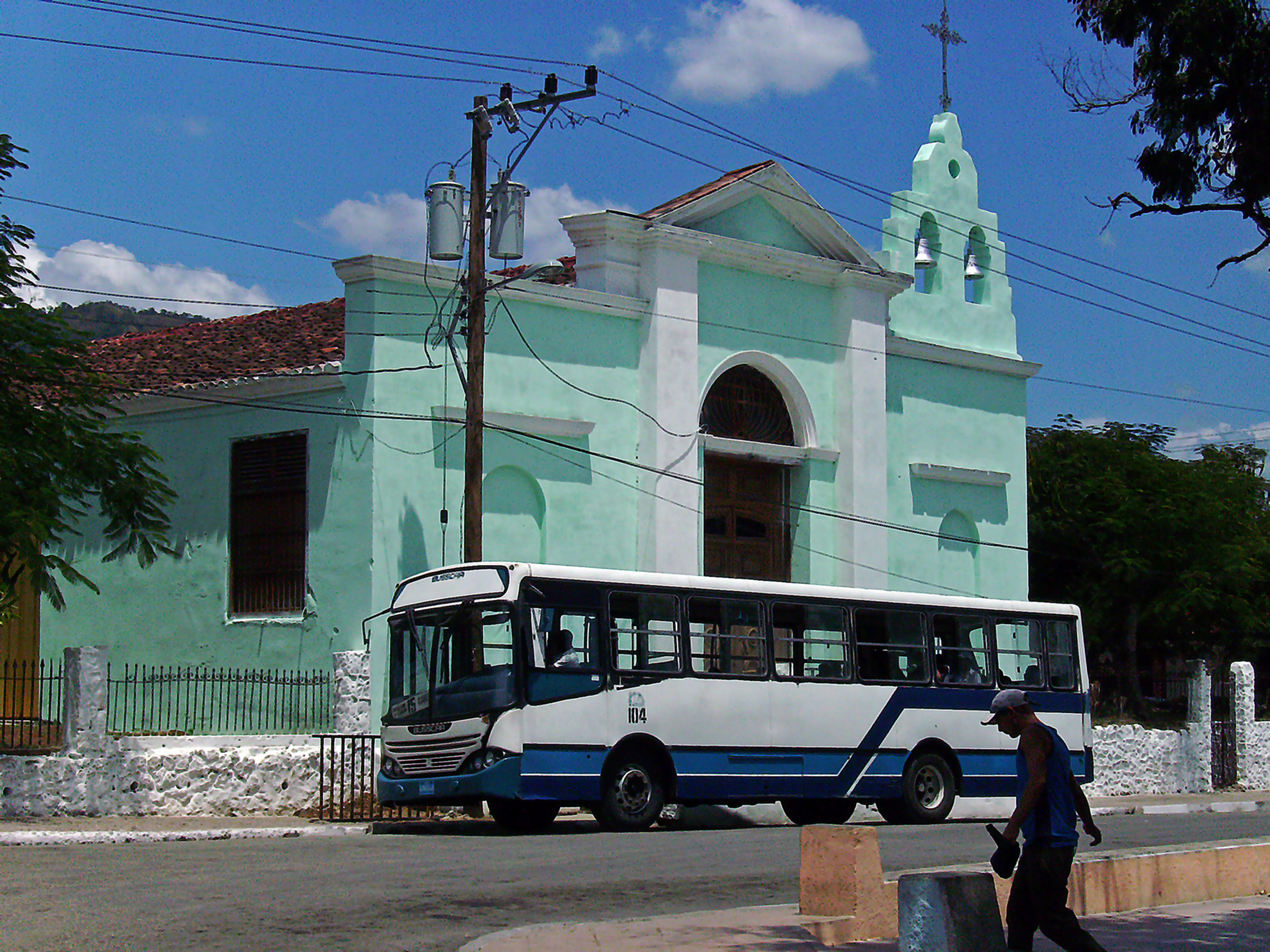 Busscar bus (#104) with unknown chassis in Santiago de Cuba, Cuba.